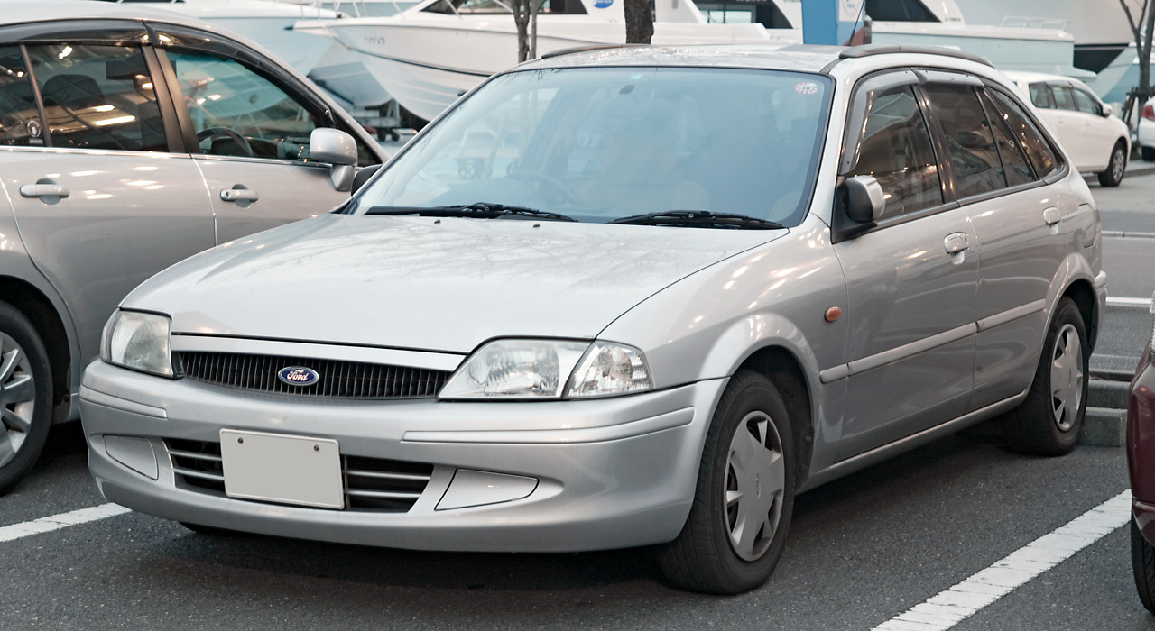 Ford Laser Lidea Wagon